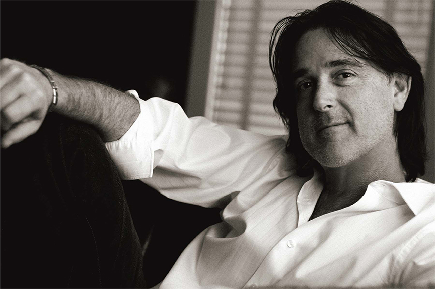 Photo of the photographer John Scarpati.